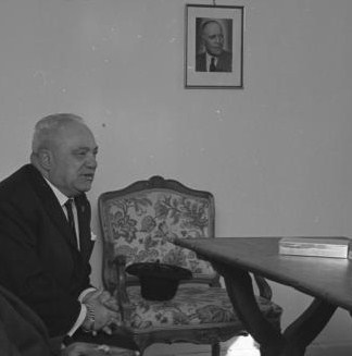 Roger Guerillot (1904-1971), politician and diplomat from the Central African Republic